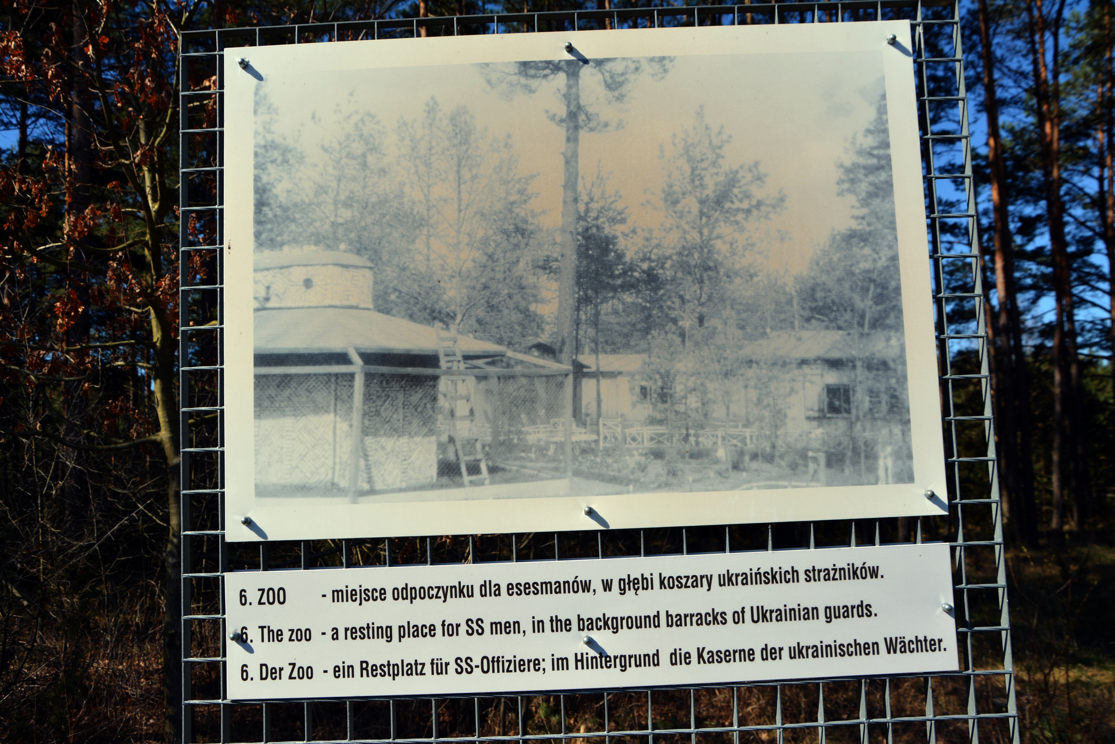 The ZOO - a resting place for SS-men, in the background barracks of Ukrainian guards.